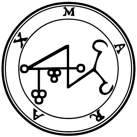 Marax seal, THE BOOK OF THE GOETIA OF SOLOMON THE KING (1904)